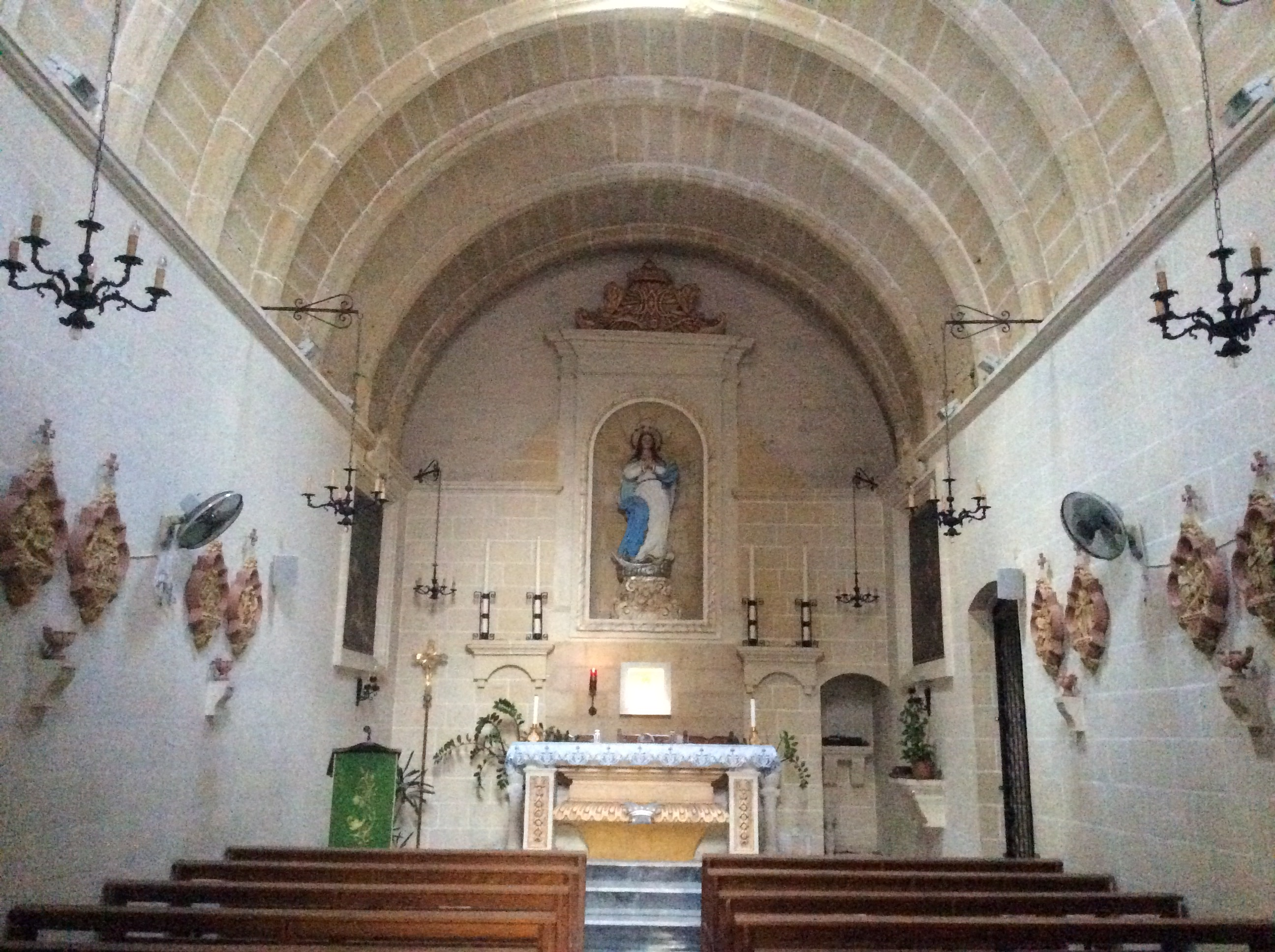 Church of the Immaculate Conception This media is about Maltese cultural property with inventory number 00017.